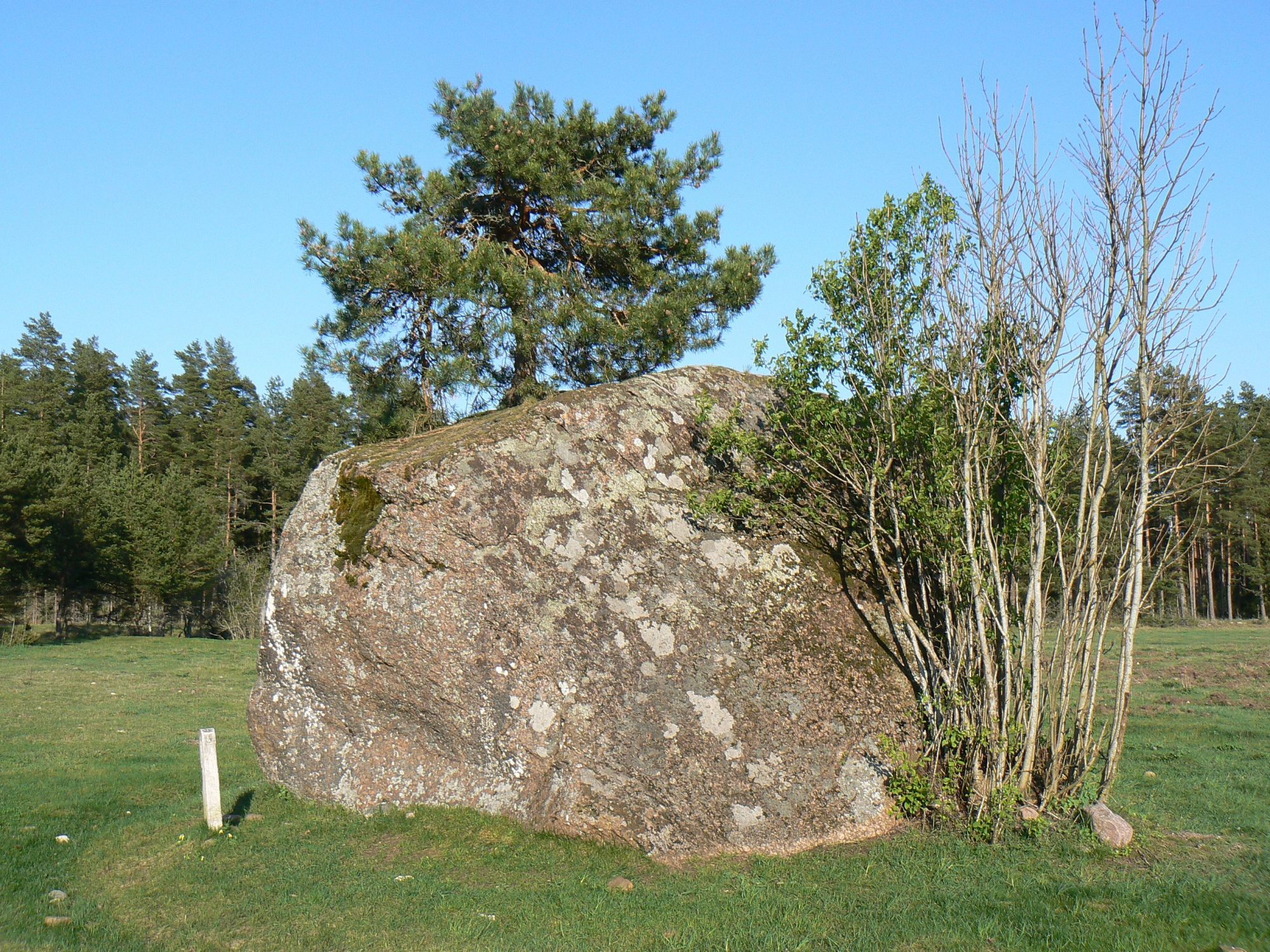 The Männikivi glacial erratic in Estonia